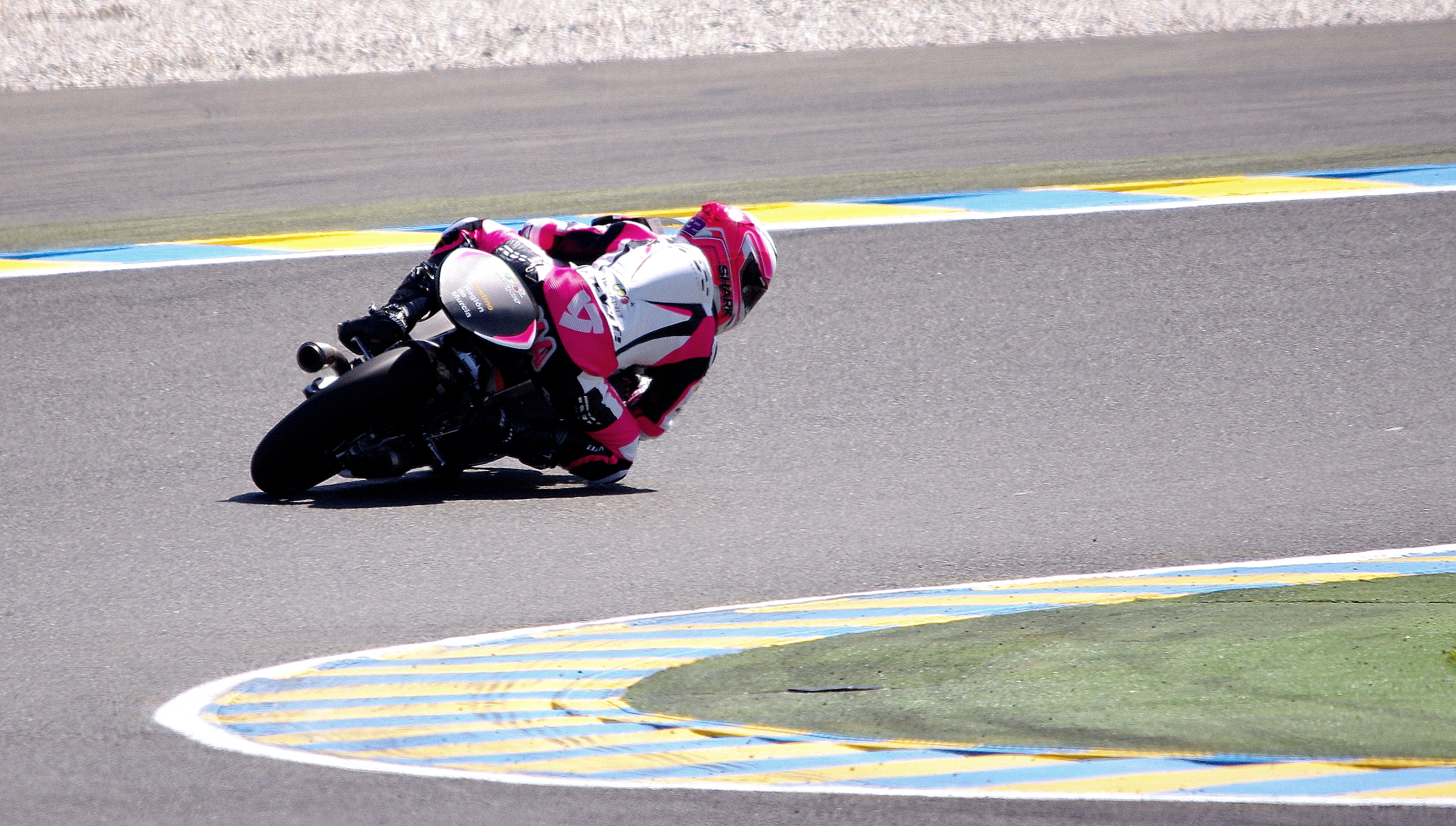 Ana CARRASCO - RW Racing GP - Moto3 2014 - Le Mans 2014 french motorcycle Grand Prix at Le Mans Bugatti Circuit